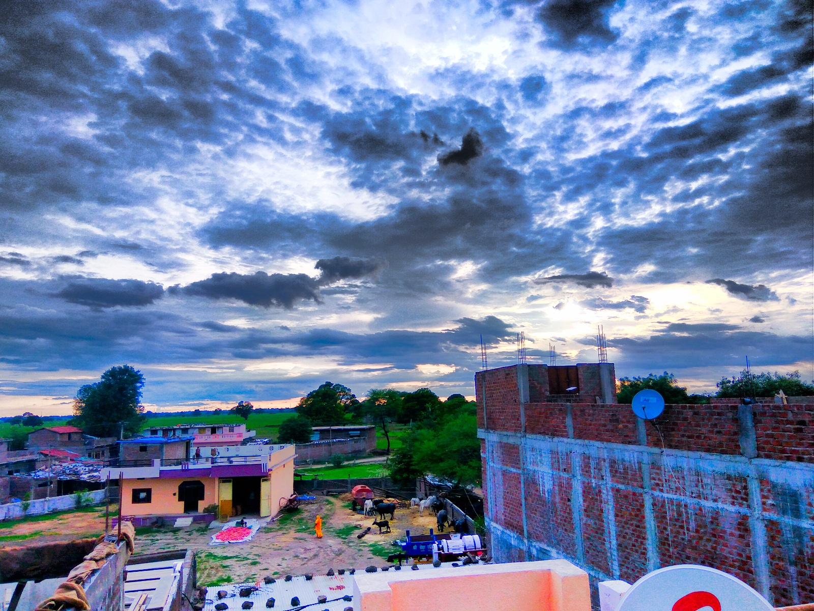 Beauty of Khadotiya